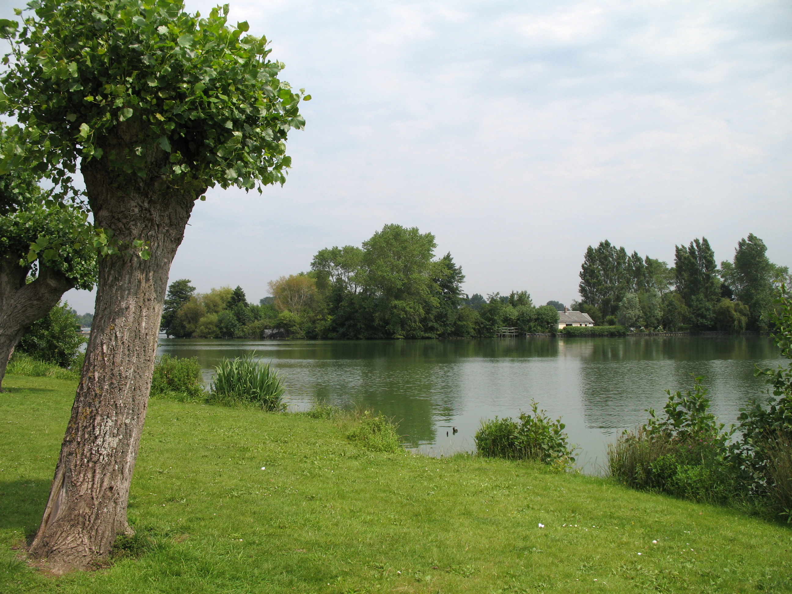 Ardres (département du Pas-de-Calais, France): the lakes north of the town